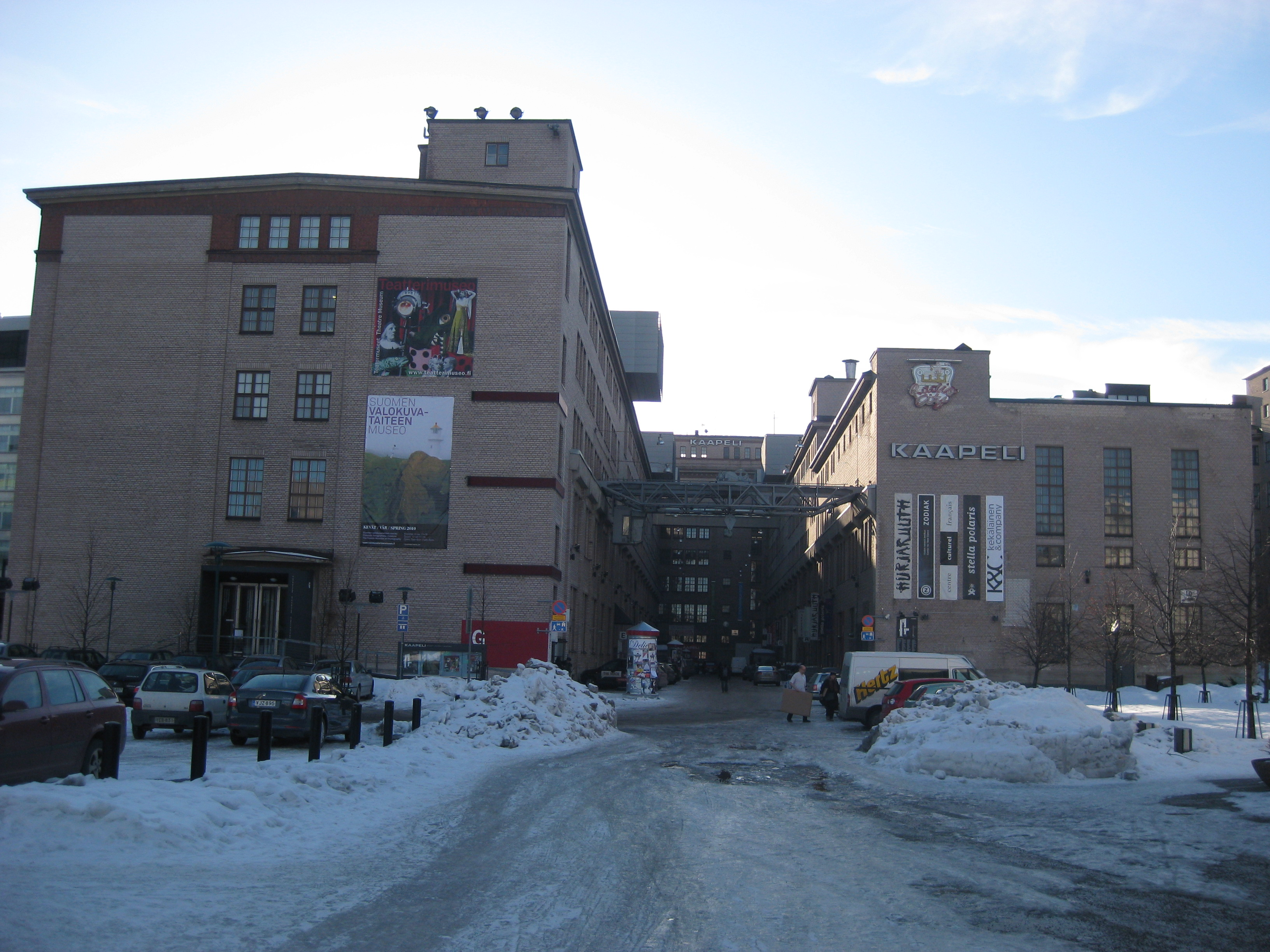 Kaapelitehdas building in Helsinki